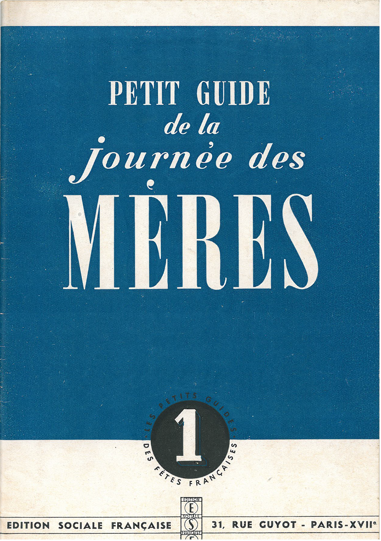 Cover of a short guide on Mother's Day, Vichy France. Preserved in the Rhône's departmental archives (Lyon, France) under code: 3829 W 9.